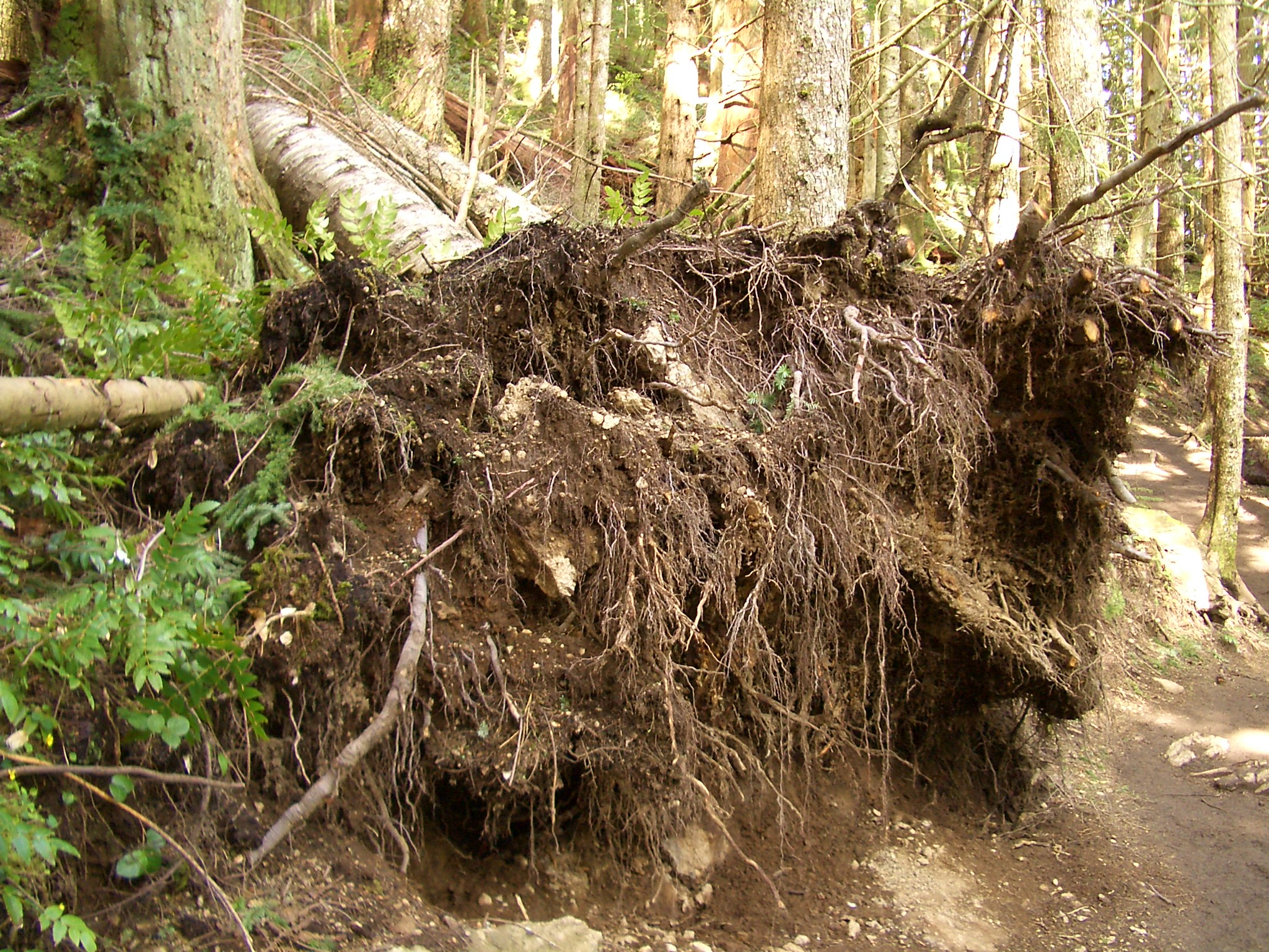 An uprooted tree near Rattlesnake Mountain Trail.